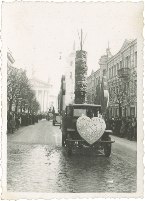 Casimir's Fair (1936)